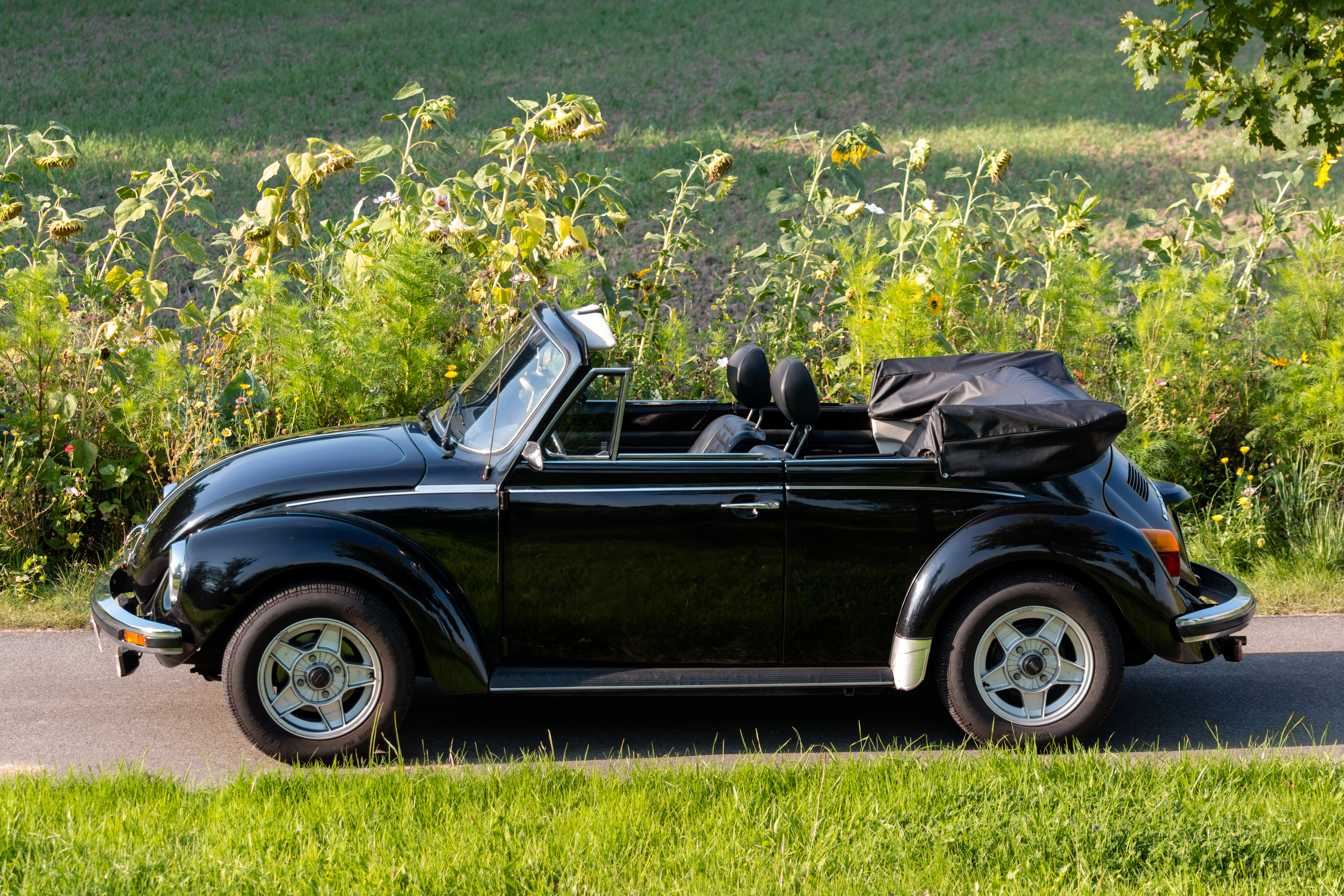 Volkswagen Beetle 1303 in the Dernekamp hamlet, Kirchspiel, Dülmen, North Rhine-Westphalia, Germany